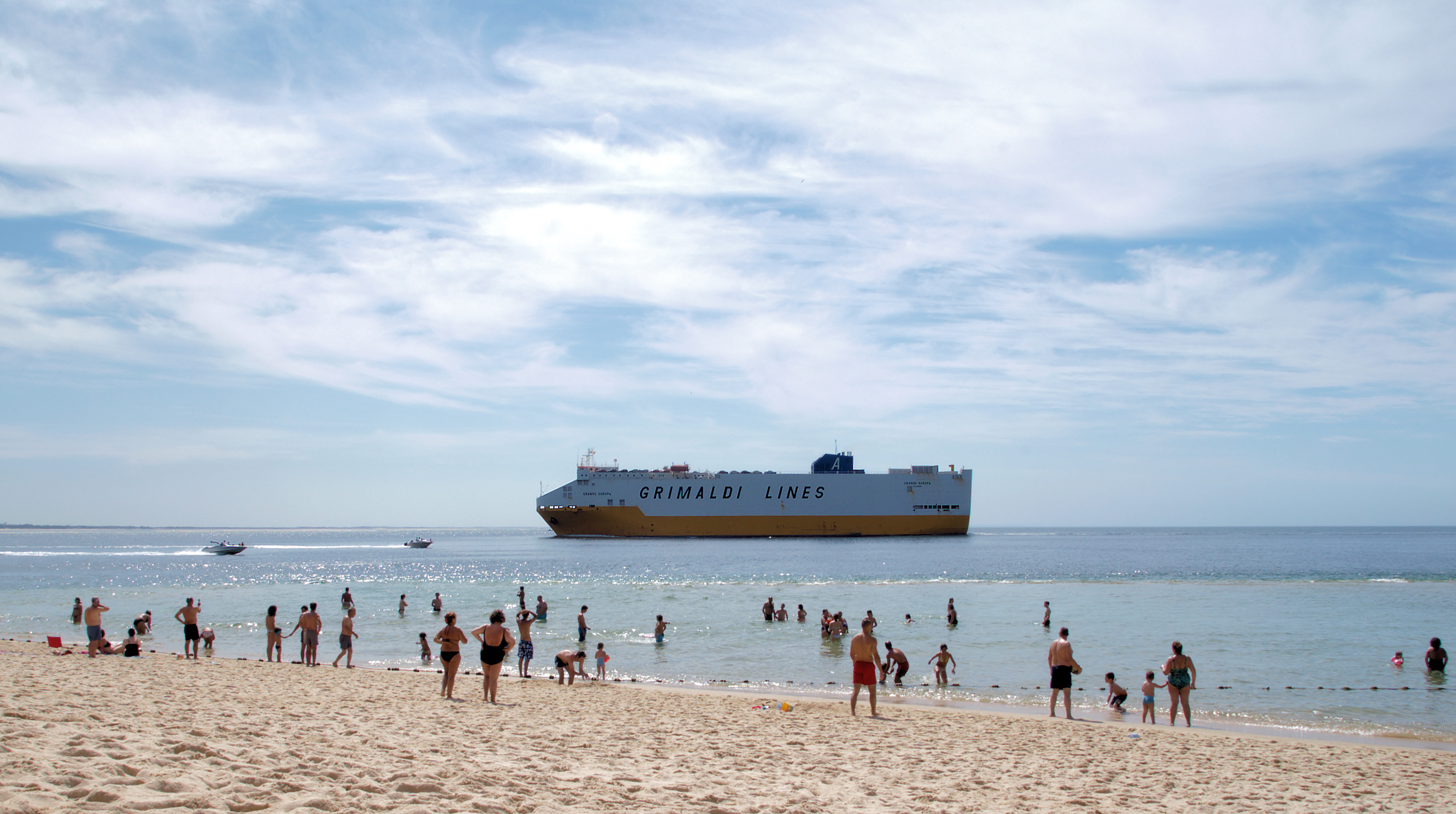 Grimaldi Lines Ship Grande Europa heading for the port of Setúbal